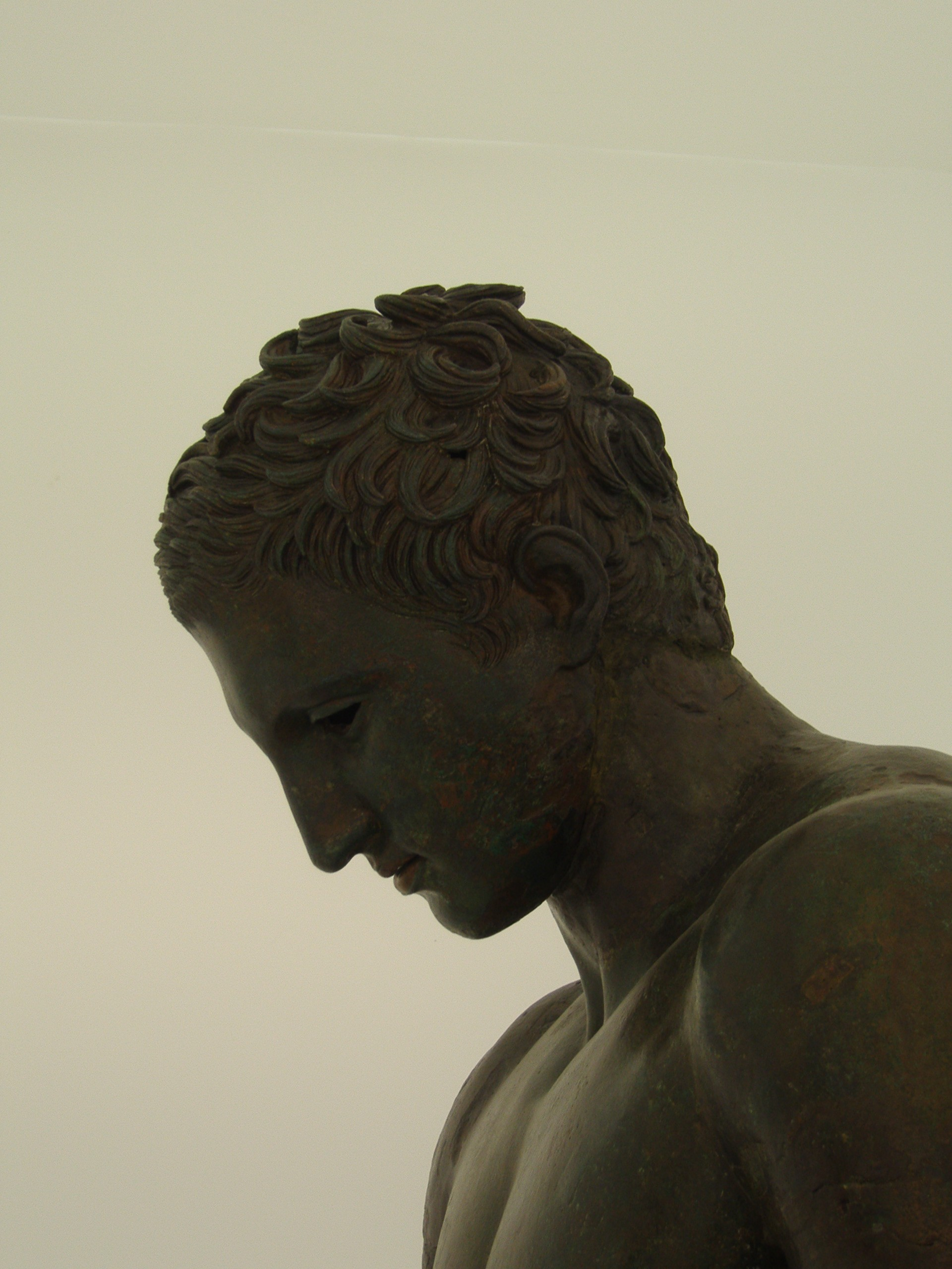 the statue of the athlete Apoxyomenos, from Croatia, during the exhibition at the Palazzo Medici in Florence, after the restoration made by the "Opificio delle Pietre Dure".